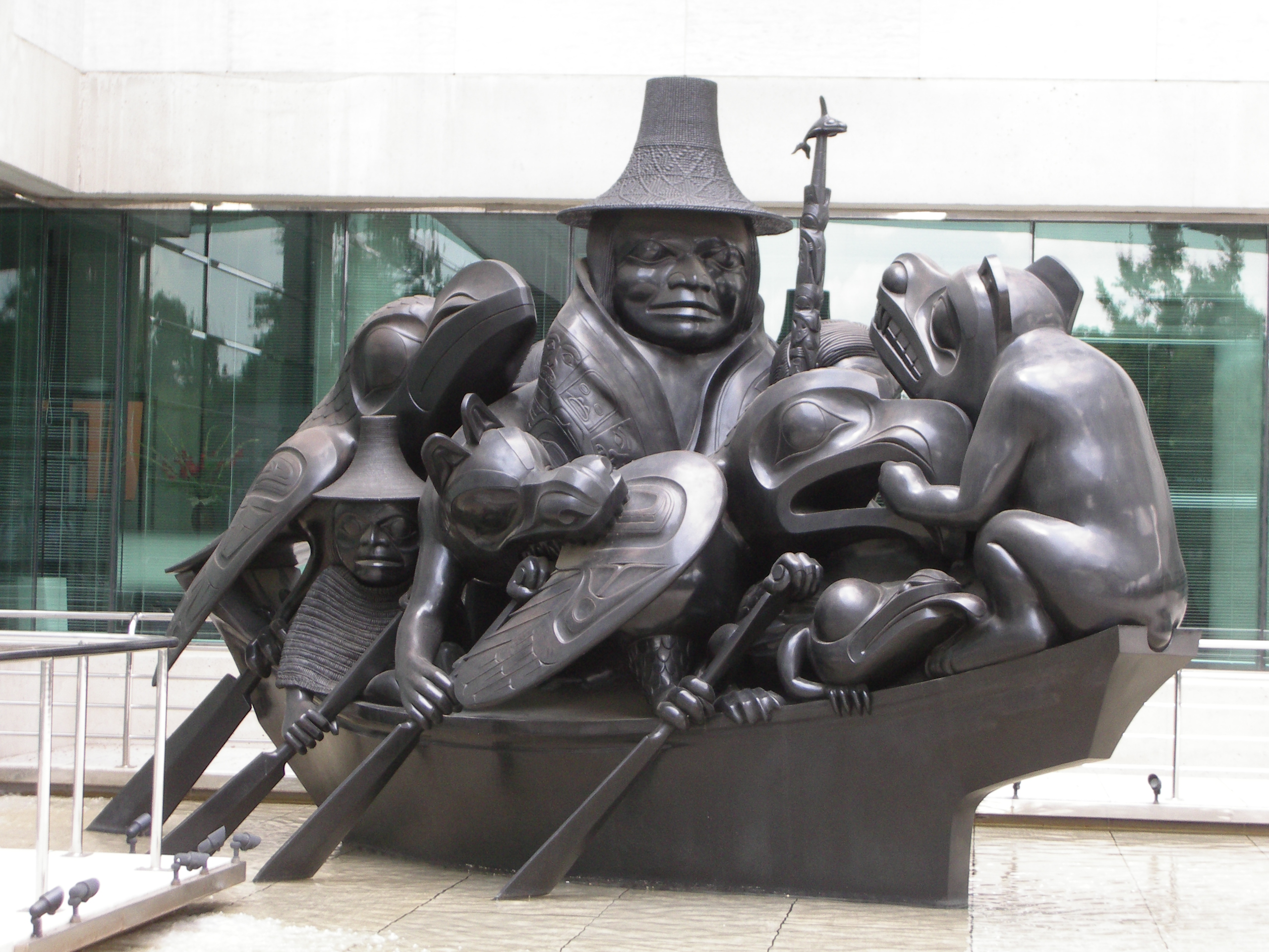 Spirit of Haida Gwaii, the Black Canoe, sculpture by Bill Reid in bronze, outside the Canadian Embassy in Washington. A second casting, Spirit of Haida Gwaii, the Jade Canoe is at dispay at the Vancouver International Airport, and the plaster cast is at the Canadian Museum of Civilizations in Ottawa.